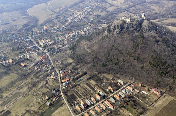 Füzér, Castle, Hungary, aerial photography